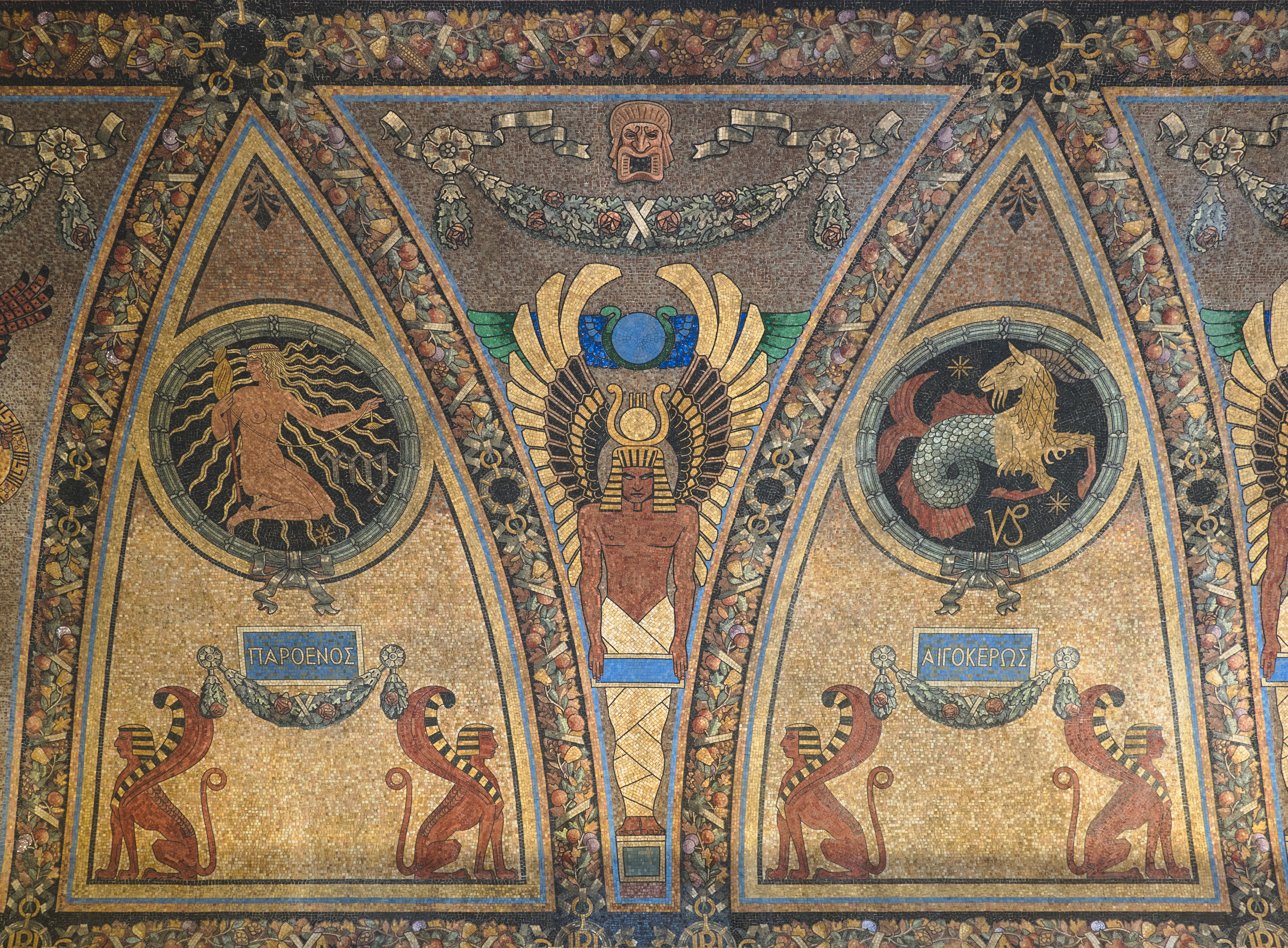 Zodiac mosaic in the Surrogate's Courthouse in Manhattan by William de Leftwich Dodge (c. 1905). Open House New York Weekend 2018